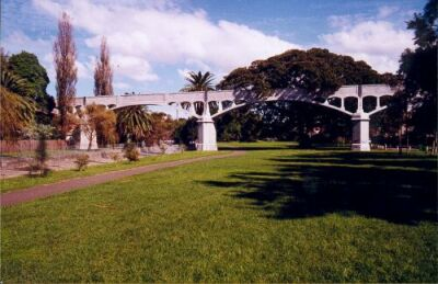 Johnston's Creek Sewer Aqueduct: The aqueduct looking south down Hogan Park.